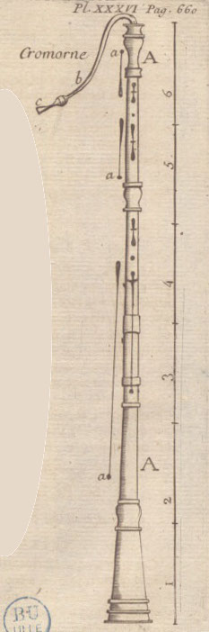 Extract from "Notionaire, ou Mémorial raisonné...", François-Alexandre de Garsault, engraver Duflos, 1761, p.658